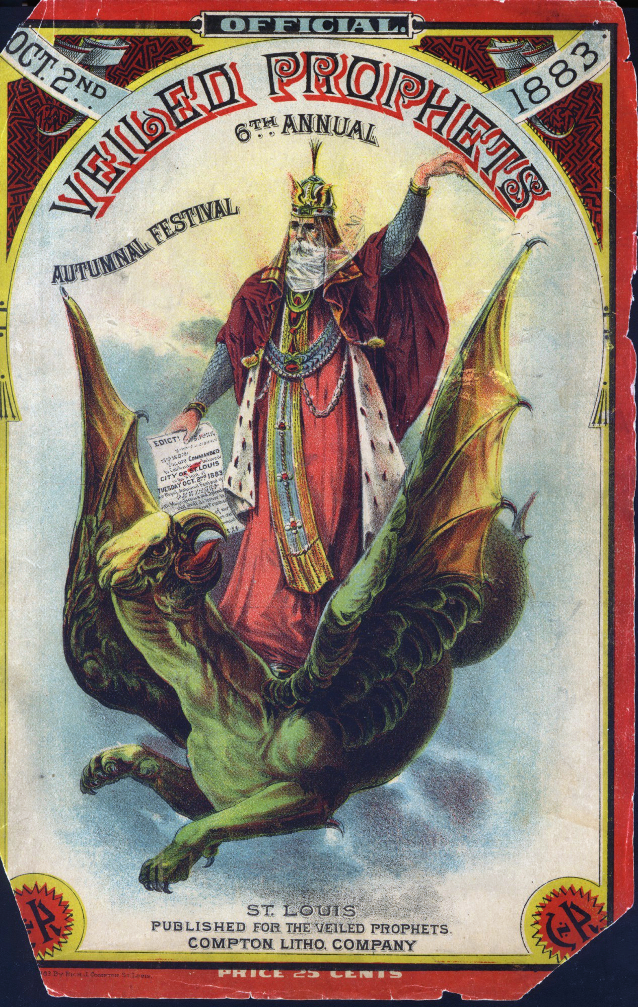 Title: Veiled Prophet's Sixth Annual Autumnal Festival, Oct 2nd, 1883. [Front cover].